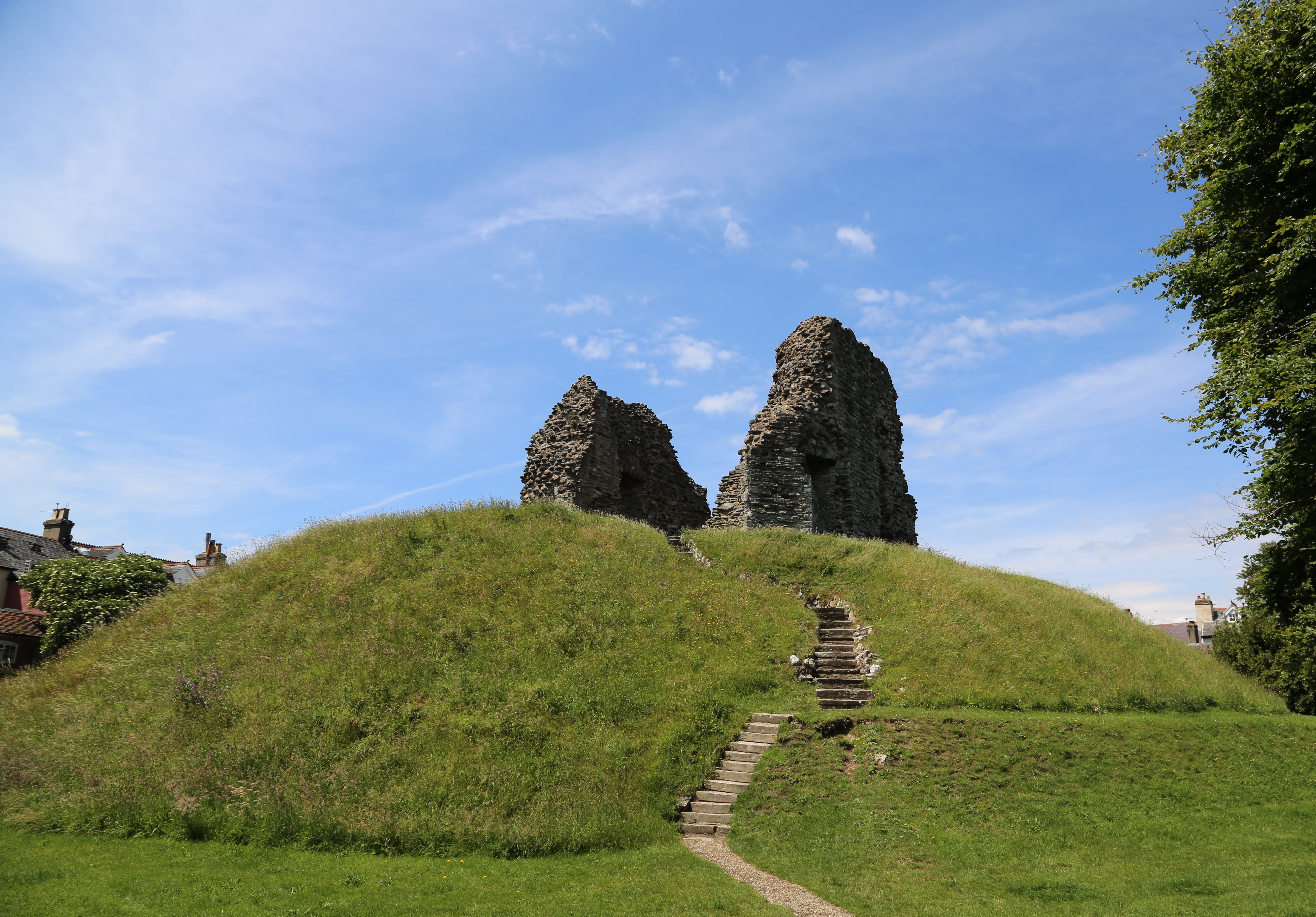 Photo of the remains of the keep of Christchurch Castle and the mound on which it sits